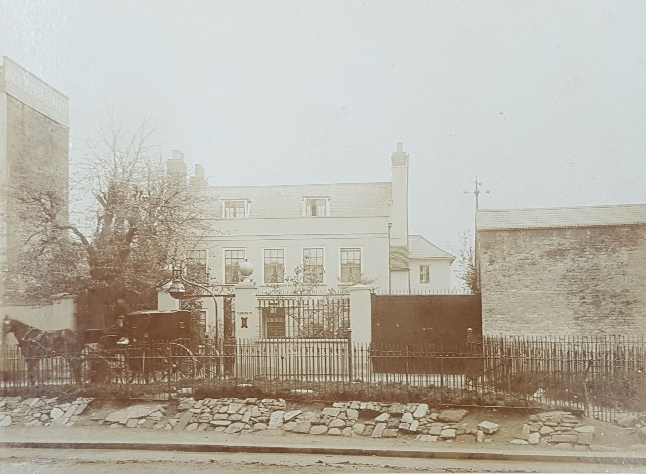 Chiswick Library Glass number ME728.3